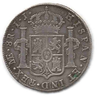 Spanish 1799 Pillar Real, Carlos III (reverse)